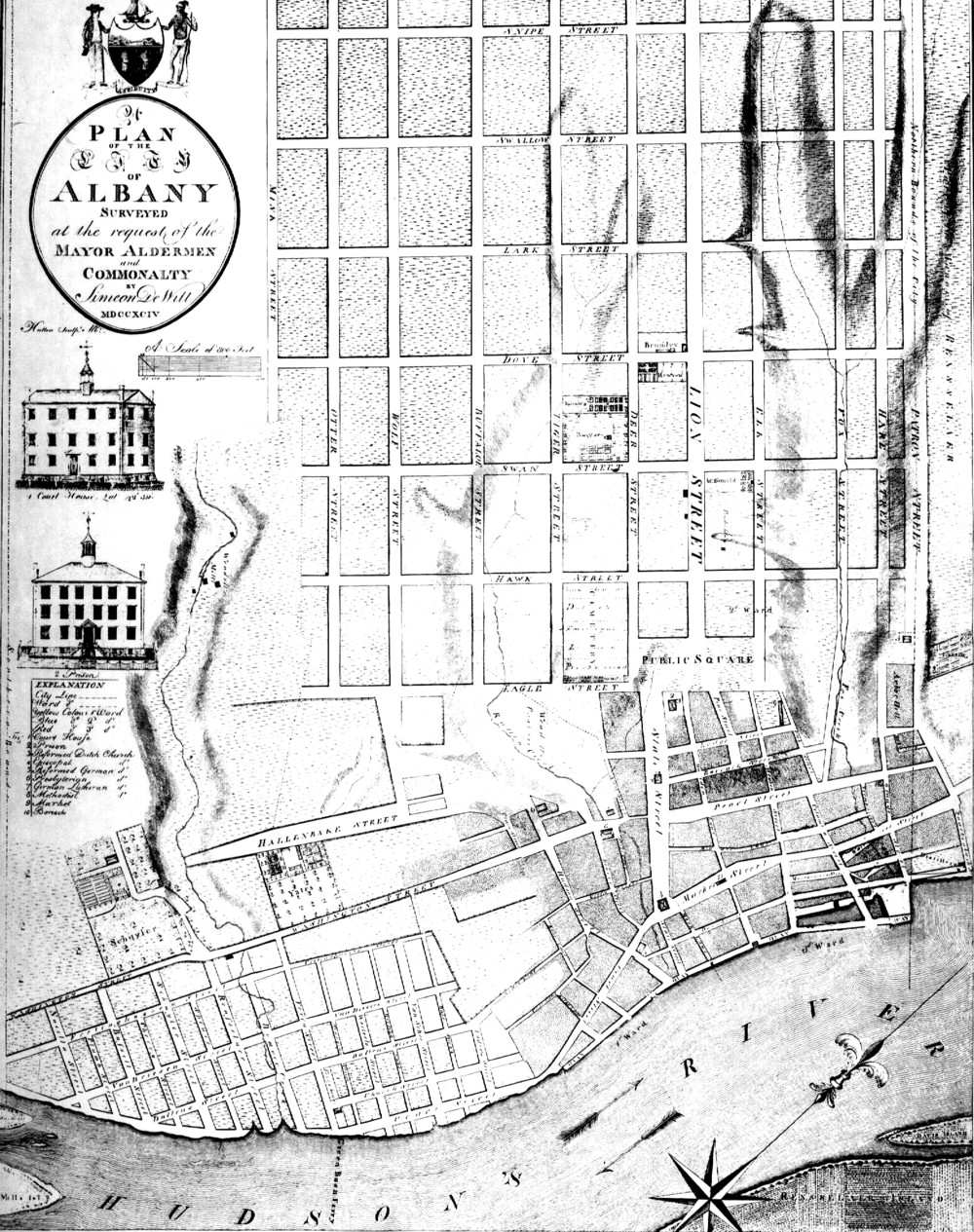 1794 map by Simeon De Witt for the city of Albany to show the planned street grid. Engraved by Isaac Hutton.